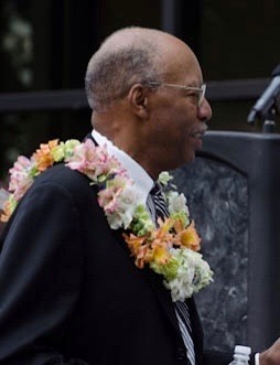 Charles Jordan, former Portland, Oregon city commissioner